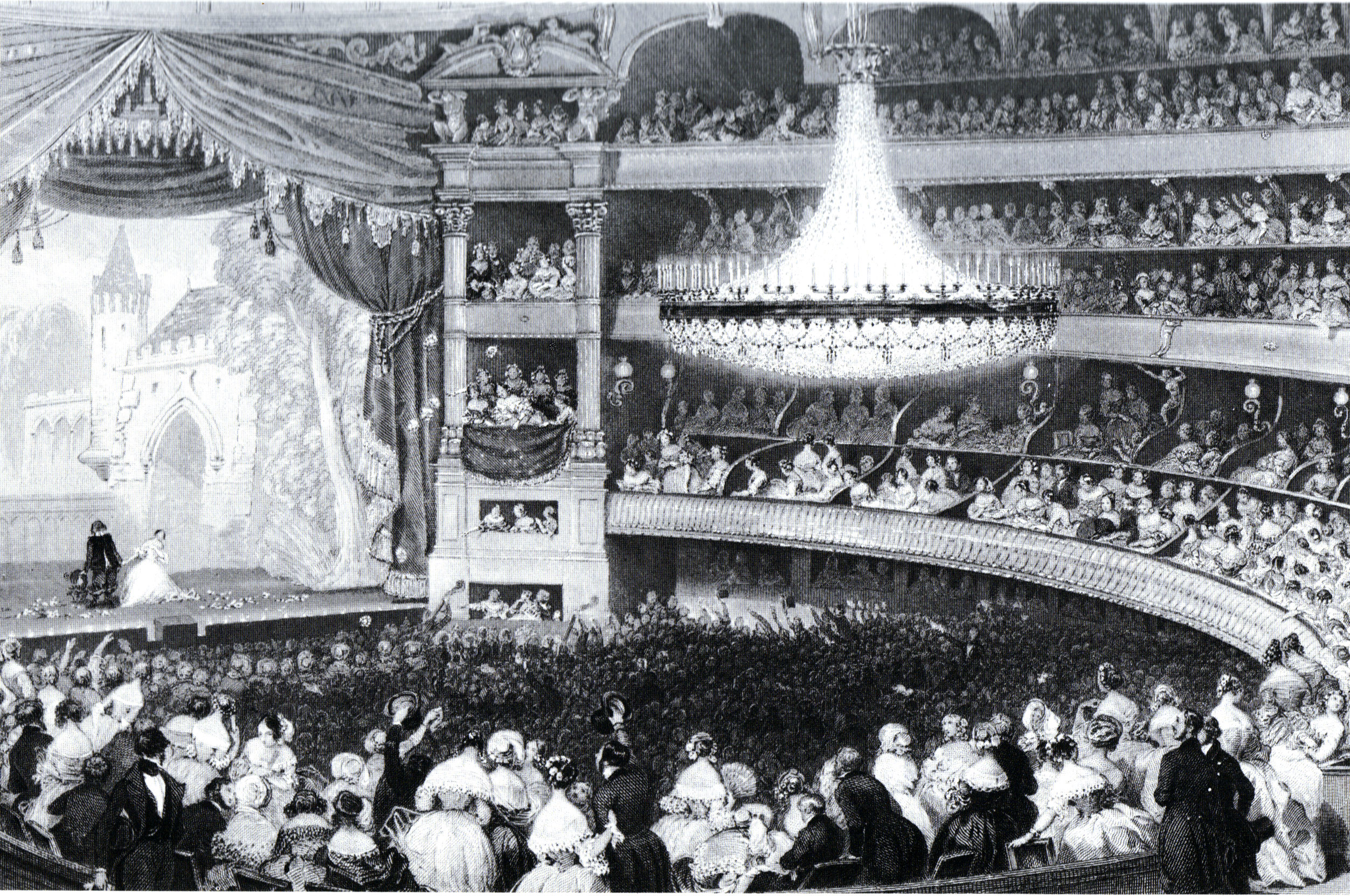 The Théâtre-Italien's Salle Ventadour around 1840. Drawing by Egène Lami, engraving by C. Mottram.